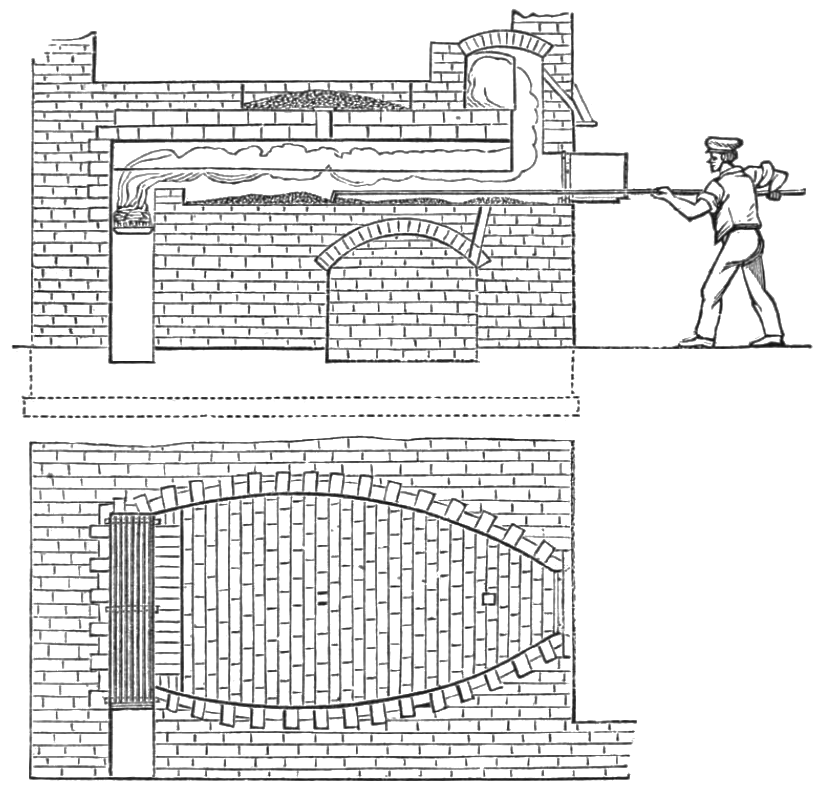 Most of the tin ores in Cornwall have to be roasted, or calcined, before they are fit for the smelting-house, although in some mines the admixture with other minerals is so trifling, that this operation is considered unnecessary. The furnace {figs. 420, 421) in which the roasting is carried on, is about 10 feet long, 5 feet inches wide in the middle, and 3 feet wide near the mouth. The fireplace, it will be observed, is situated at the back, the flames playing through the oven and ascending the chimney, which is above the furnace door. The man is represented in fig. 421 as stirring the ore with a long iron rake. The ore, before it is submitted to the action of the fire, is thoroughly dried in a circular pit, placed immediately above the oven, into which it is let down through the opening when it is considered to be ready for calcining. Beneath the oven and connected with it by an opening through which the ore when sufficiently roasted is made to pass, is an arched opening about 4 feet wide, termed the " wrinkle." Here the ore is collected, whilst another charge is being placed in the furnace. About 7 cwt. or 8 cwt. of ore is the quantity usually roasted at one time. Whilst undergoing this operation, dense fumes of arsenic and sulphur escape with the smoke from the fire, and pass through large flues, divided into several chambers, {fig. 422,) where the former is collected. The flue is often 70 yards long, and the greatest deposit of arsenic takes place at about 15 yards from the oven or furnace. Instead of being at once completely roasted, the "whits" from the stamps are sometimes first "rag" (or partially) burnt, for about six or eight hours. The object of this partial burning is to save time and expense, nearly three-fourths of it being thrown away after dressing it from the first burning.